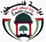 alchiouch